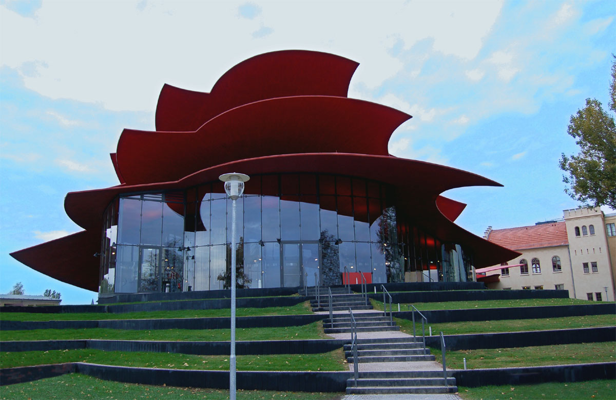 Das neue Hans Otto Theater in Potsdam